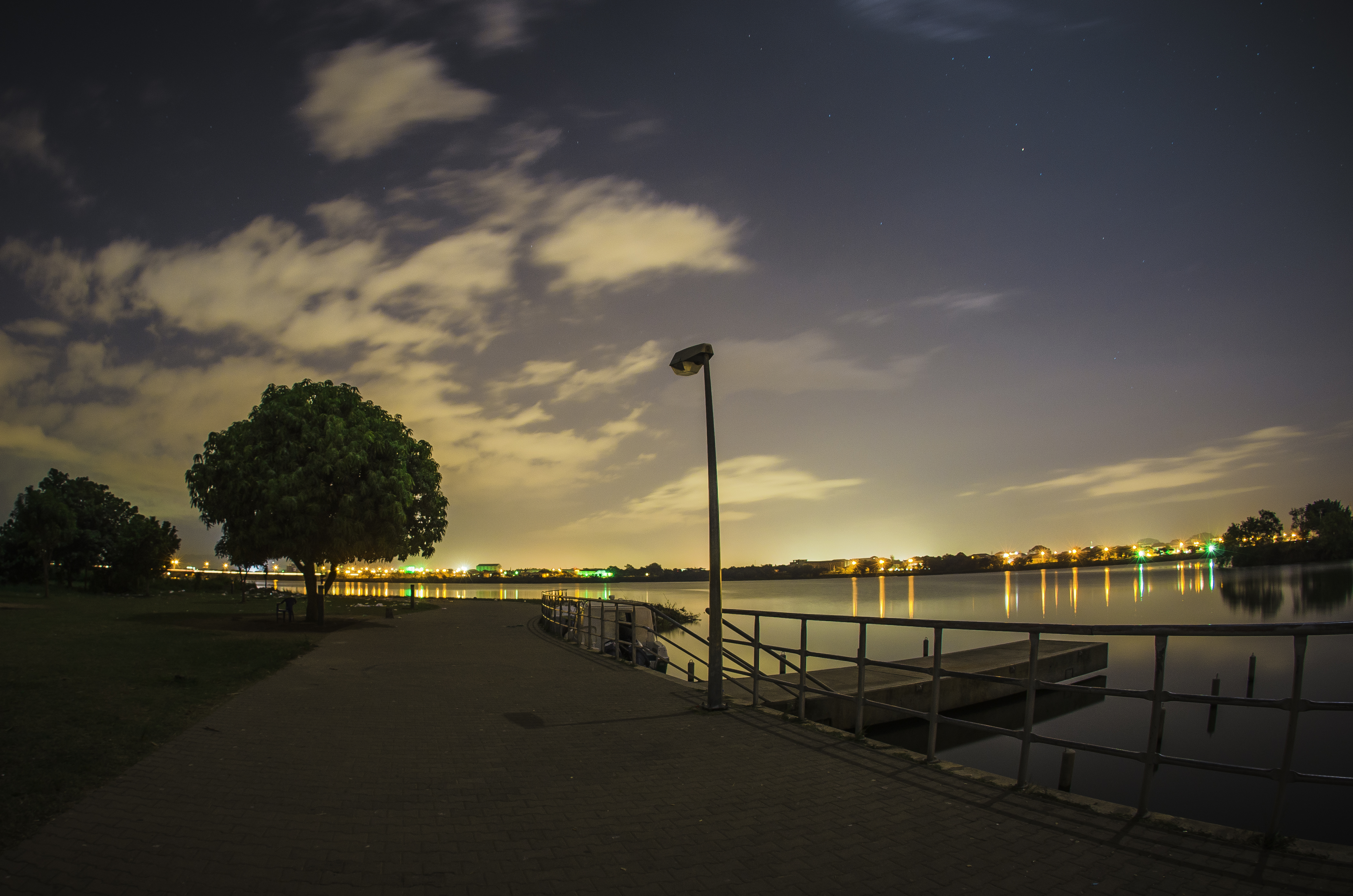 jabi lake abuja This is an image of Cultural Fashion or Adornment from Nigeria